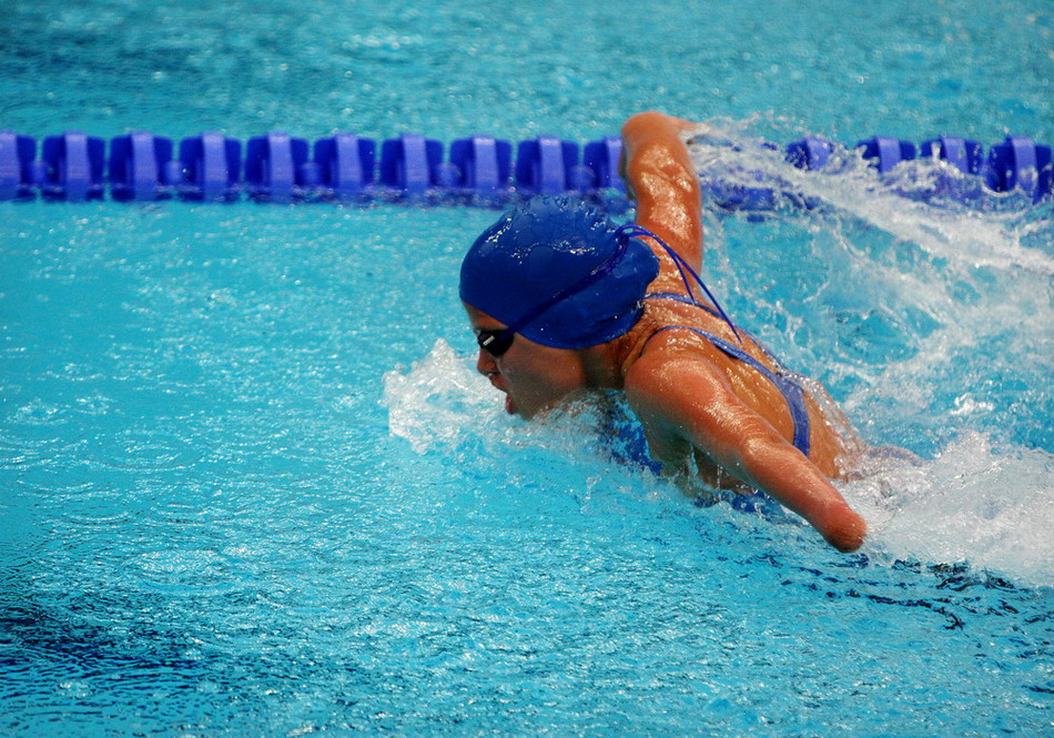 Swimming at the 2008 Summer Paralympics - women Butterfly stroke